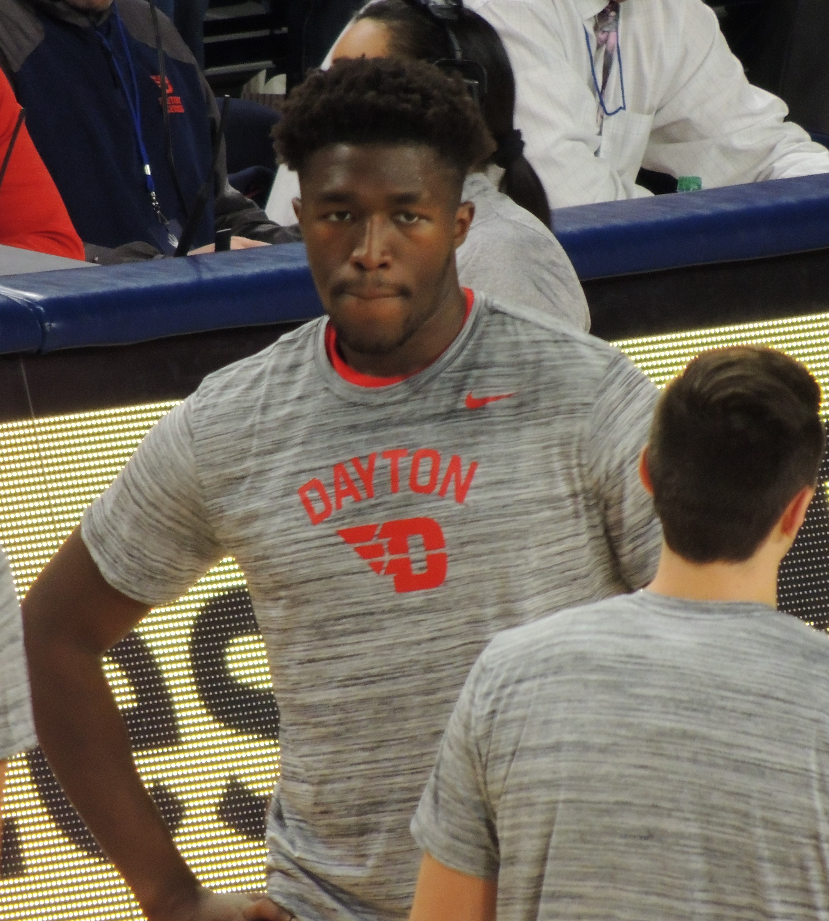 Canadian college basketball player Jordy Tshimanga of the University of Dayton in a game at the University of Richmond on January 25, 2020.